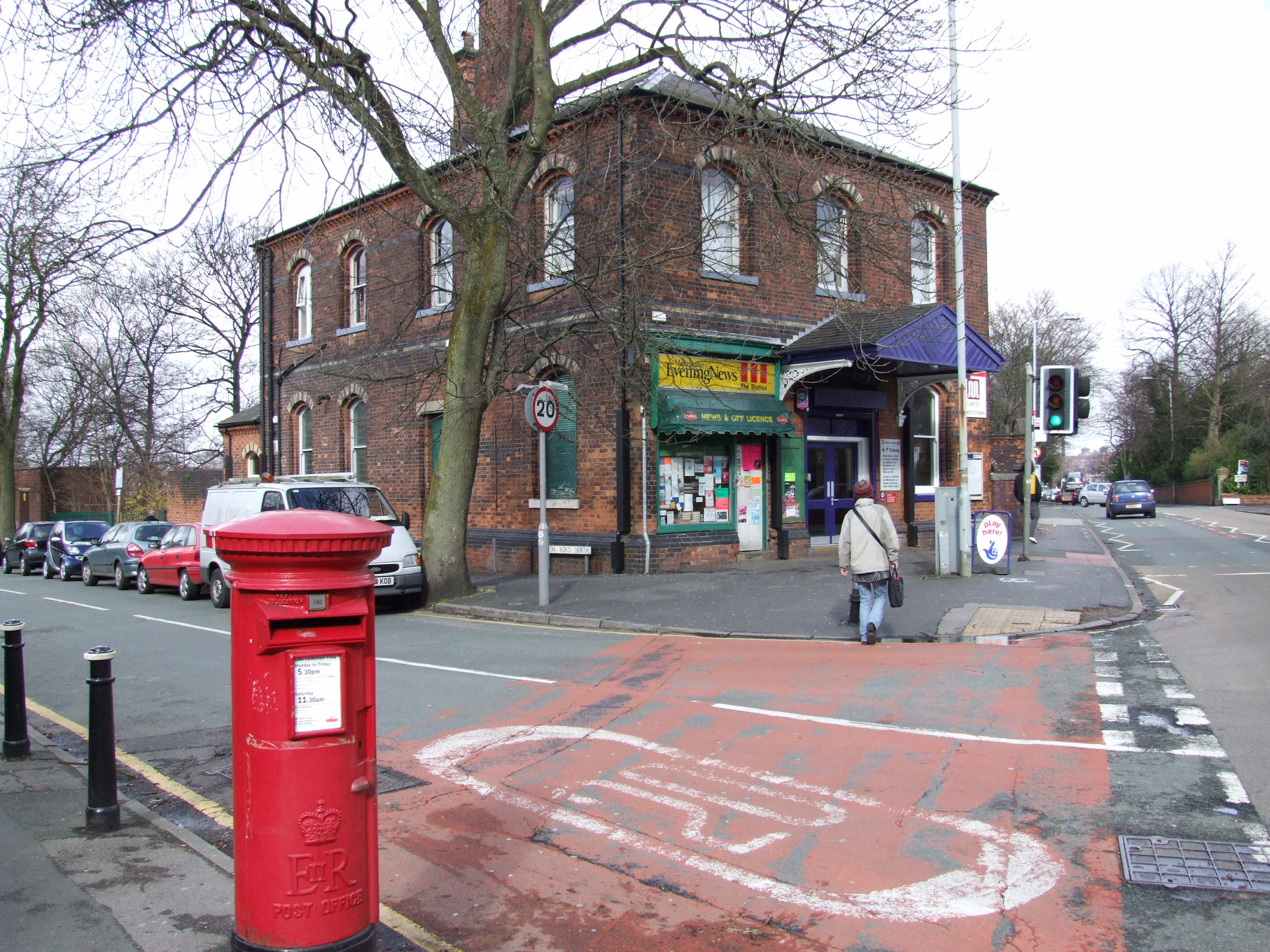 Heaton Chapel is situated in Stockport, in the direction of Manchester. It lies at the junction of the A6 road and the A626. The railway runs parallel to the A6.. . Heaton Chapel railway station. The booking office and main entrance at road level. A post office pillar box. This is on the border with Heaton Moor. - Google Maps - Google Earth